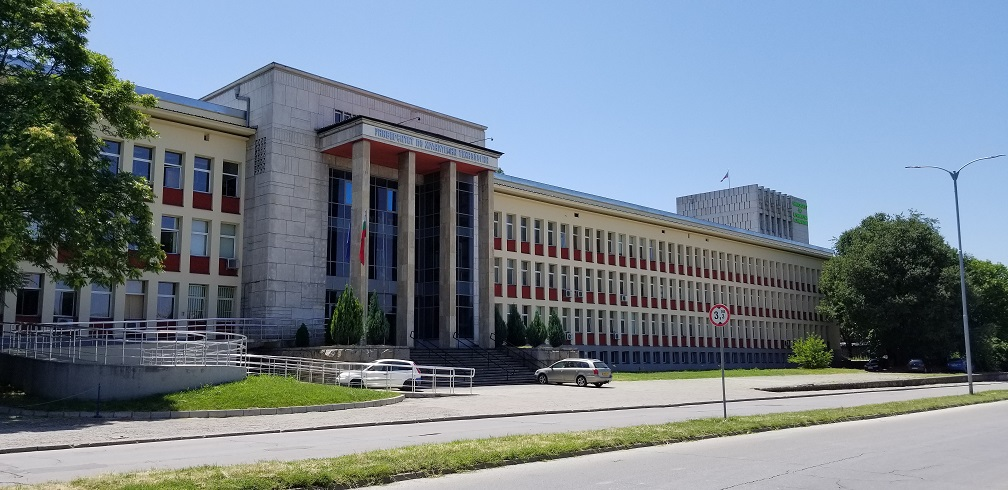 University of Food Technology, Plovdiv